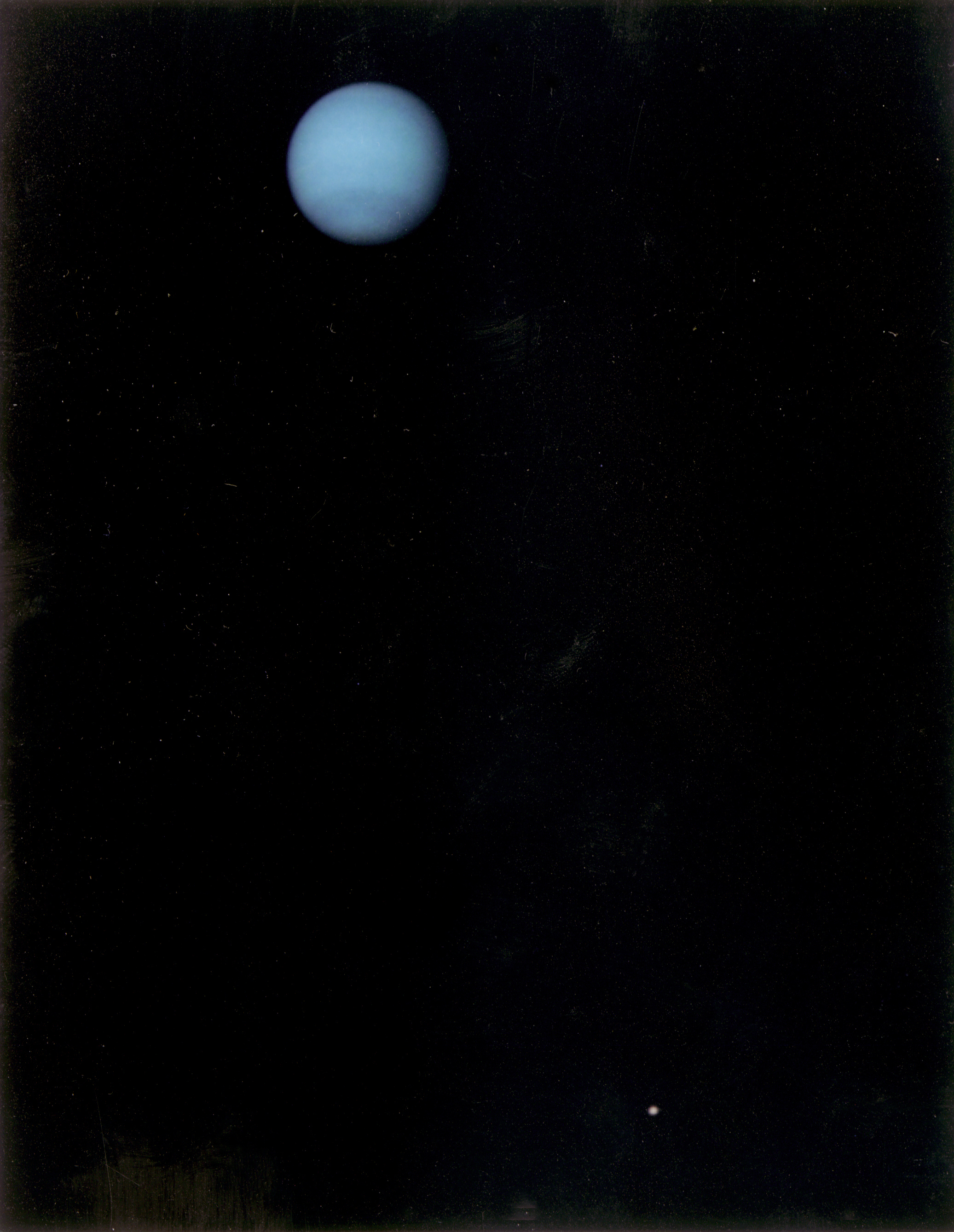 This image was returned by the Voyager 2 spacecraft on July 3, 1989, when it was 76 million kilometers (47 million miles) from Neptune. The planet and its largest satellite, Triton, are captured in the field of view of Voyager's narrow-angle camera through violet, clear and orange filters. Triton appears in the lower right corner at about 5 o'clock relative to Neptune. Measurements from Voyager images show Triton to be between 1,400 and 1,800 kilometers (about 870 to 1,100 miles) in radius with a surface that is about as bright as freshly fallen snow. Because Triton is barely resolved in current narrow-angle images, it is too early to see features on its surface. Scientists believe Triton has at least a small atmosphere of methane and possibly other gases. During its closest approach to Triton on August 25, 1989, Voyager provided high-resolution views of the moon's icy surface and reveal whether Triton's atmosphere has clouds. JPL manages the Voyager Project for NASA's Office of Space Science and Applications, Washington, DC.